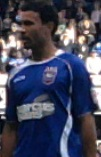 Edwards lining up against coventry 16 October 2010. Picture taken by me IpswichTown95